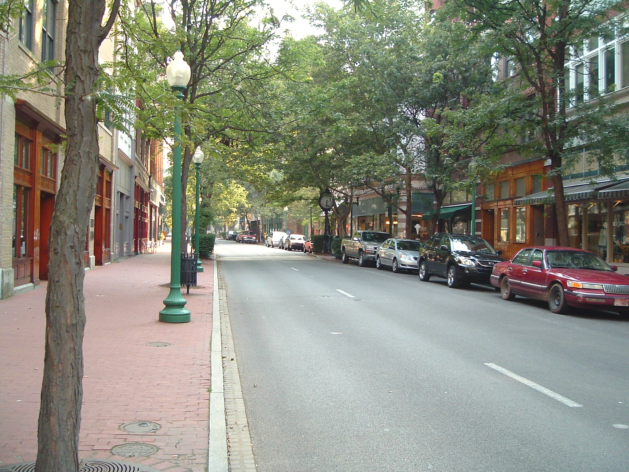 Capitol Street in Charleston, WV. Photographed July, 2006. Self Made Photo.